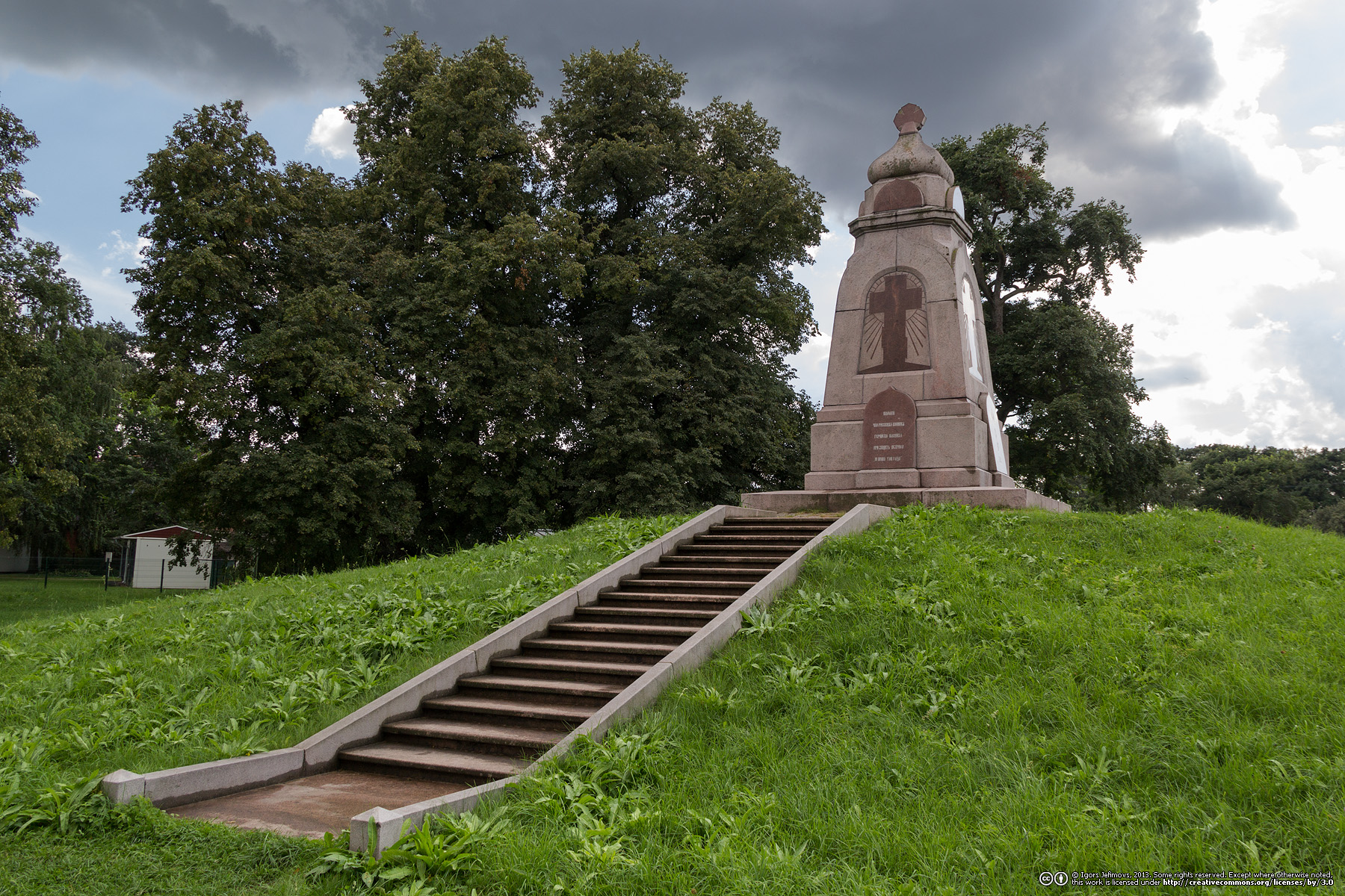 Monument to the 400 fallen Russian soldiers